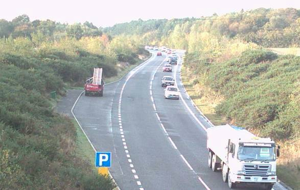 A2070 from Poundhurst Bridge. The bridge from which this picture is taken is in TR0135 but the picture is all TR0035. Who isn't familiar with the sight of a lorry crawling slowly uphill with a long line of cars trailing behind? Here we see the A2070 emerging from Hamstreet Woods on its way to Ashford with the railway hidden behind the trees on the left. This road even has its own website at